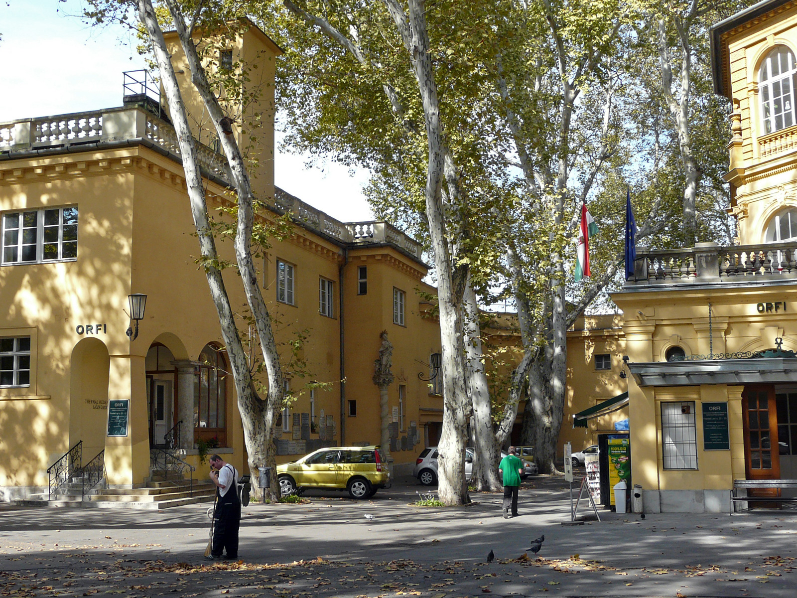 Budapest, 2. distr., Lukács bath